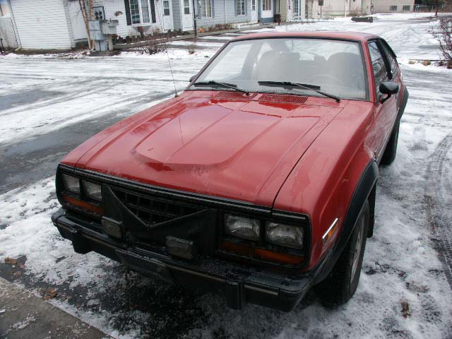 1981 AMC Eagle SX/4 with 258 inline six.